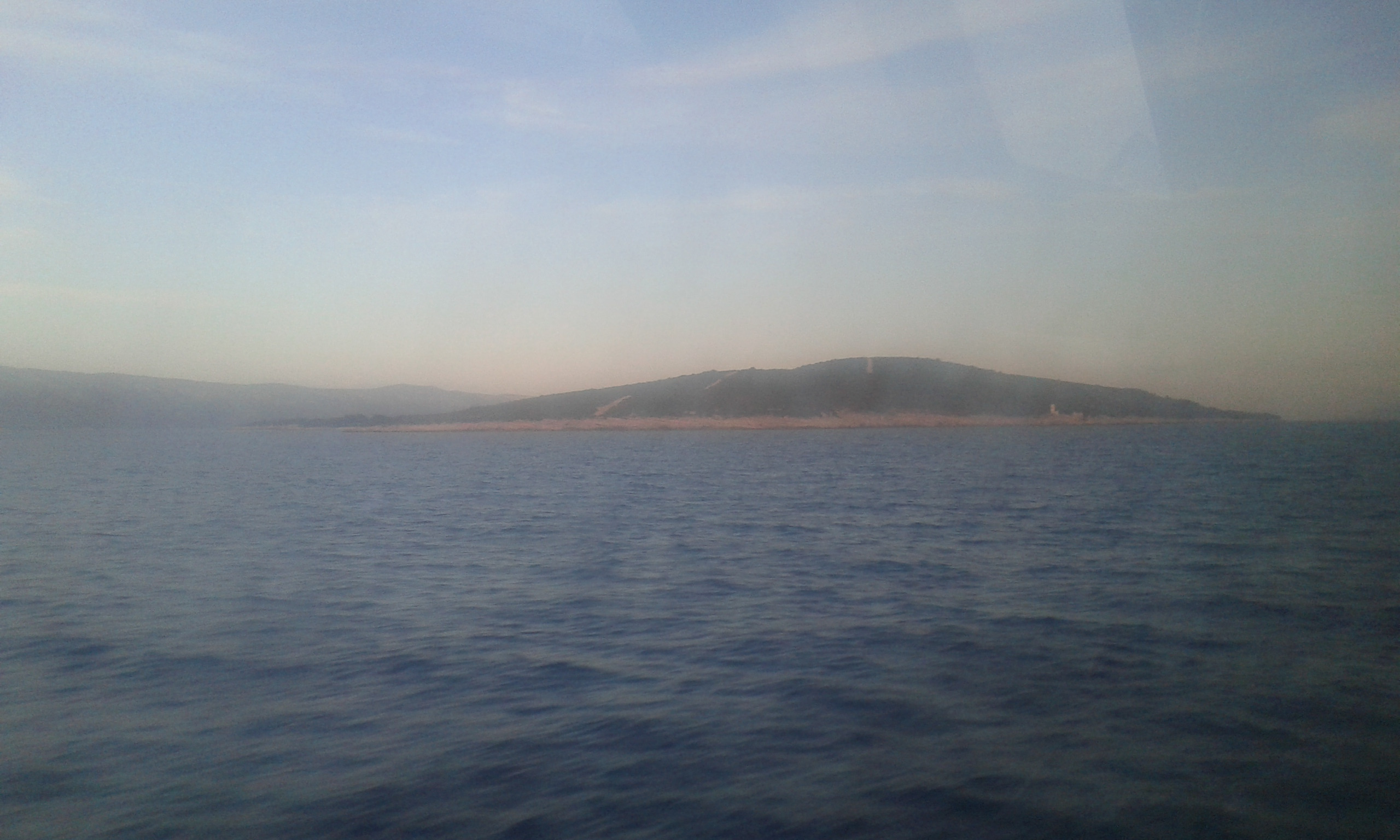 Šćedro